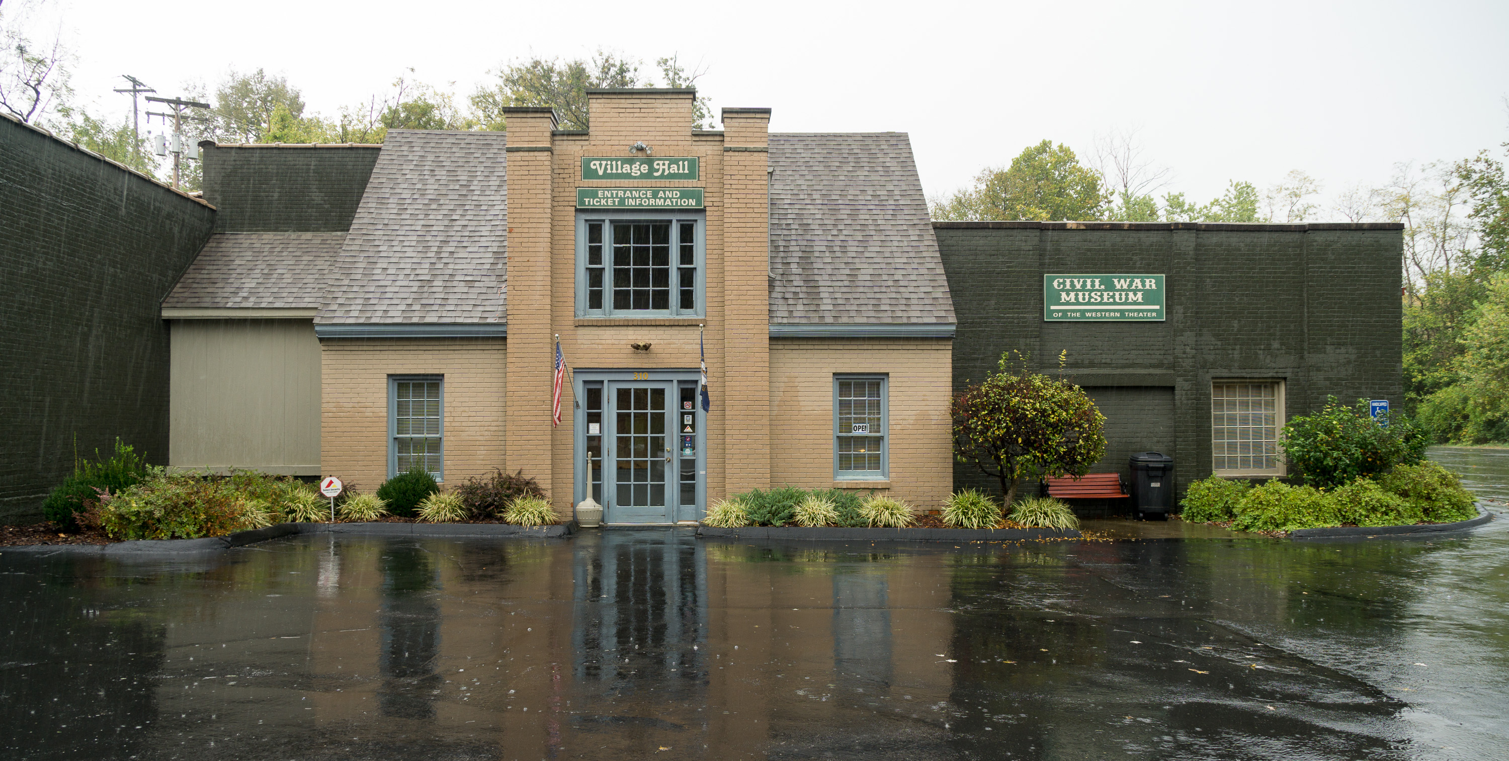 Bardstown Civil War Museum exterior 2016